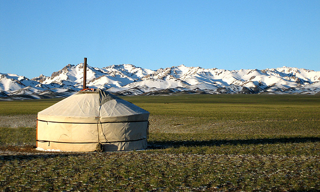 Yurt with the Gurvansaikhan Mountains behind, part of Gobi Gurvansaikhan National Park